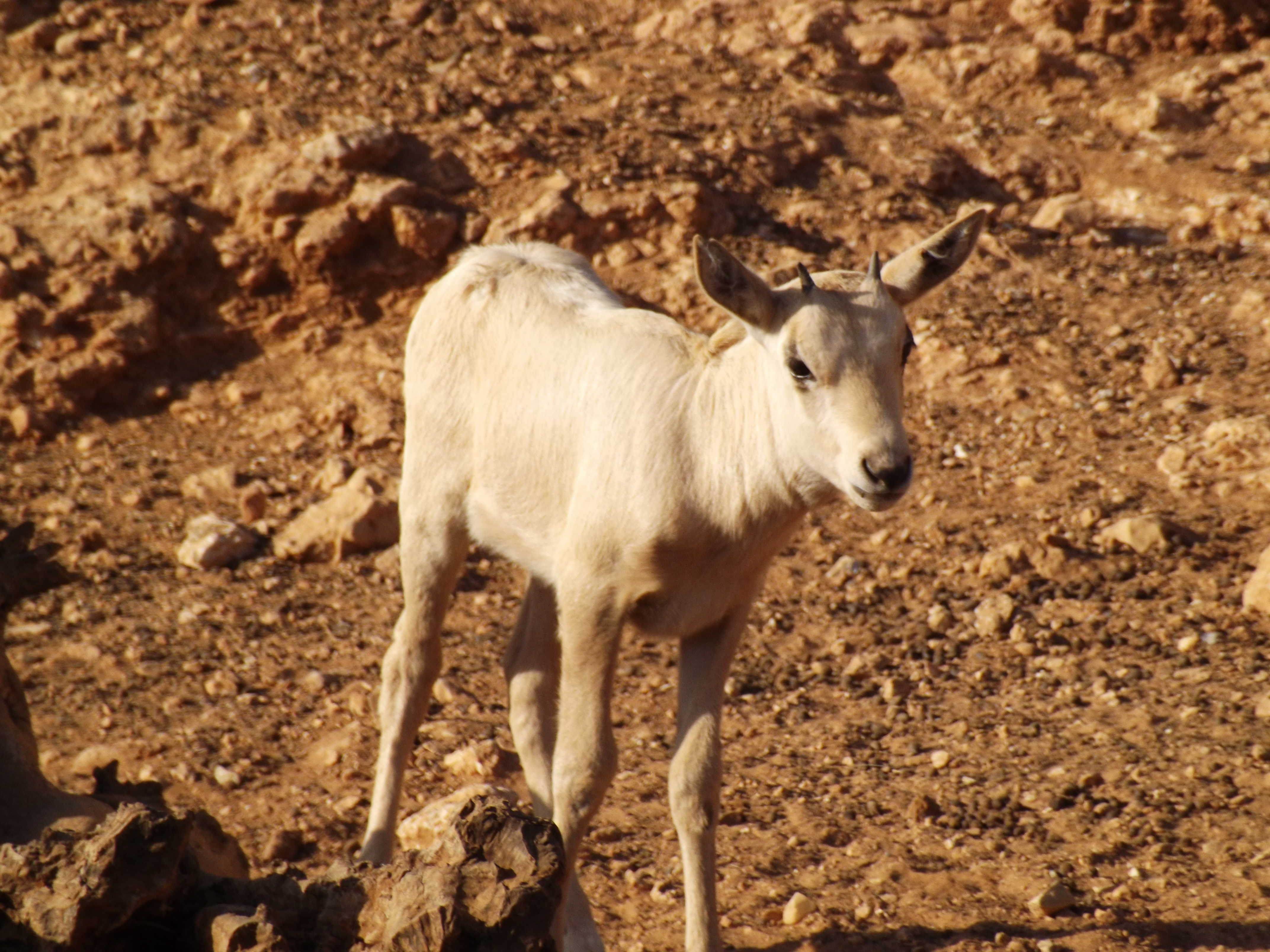 A baby Arabian Oryx (Oryx leucoryx) at the Jerusalem Biblical Zoo.